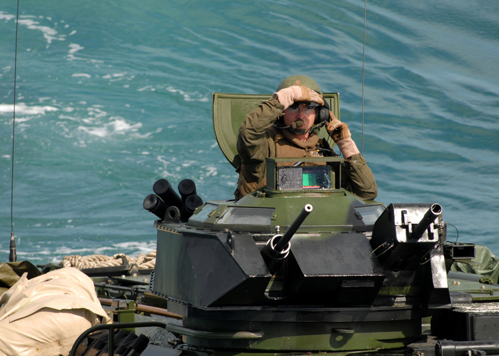 ATLANTIC OCEAN (July 19, 2008) An amphibious assault vehicle operator assigned to the 26th Marine Expeditionary Unit peers out as he prepares to embark aboard the amphibious dock landing ship USS Carter Hall (LSD 50) during the Iwo Jima Expeditionary Strike Group composite unit training exercise (COMPTUEX). COMPTUEX provides a realistic training environment to ensure the strike group is capable and ready for its upcoming scheduled deployment. (U.S. Navy photo by Mass Communication Specialist 3rd Class Katrina Parker/Released)